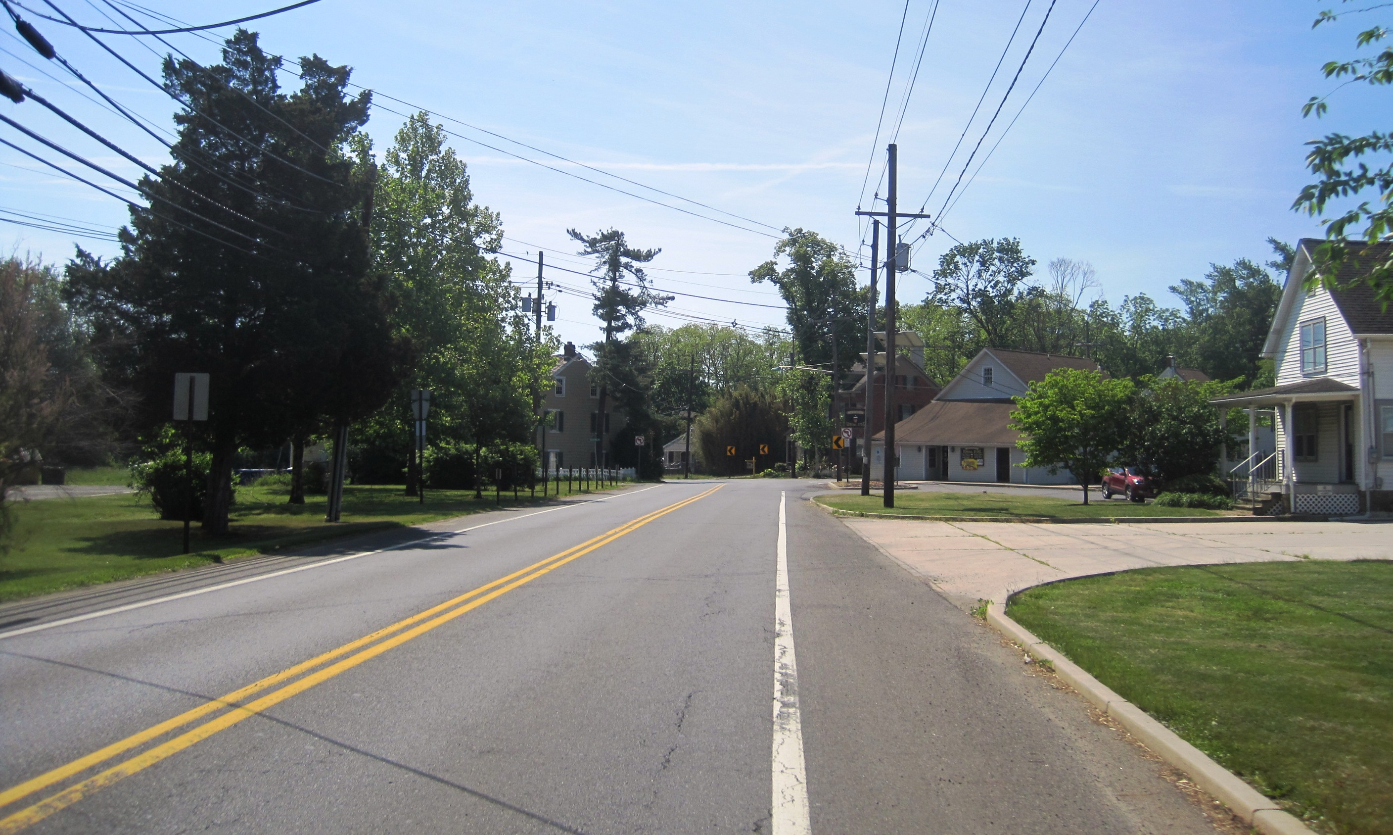 Photo of Chesterfield Township, New Jersey on County Route 528 east approaching Chesterfield-Georgetown Road.